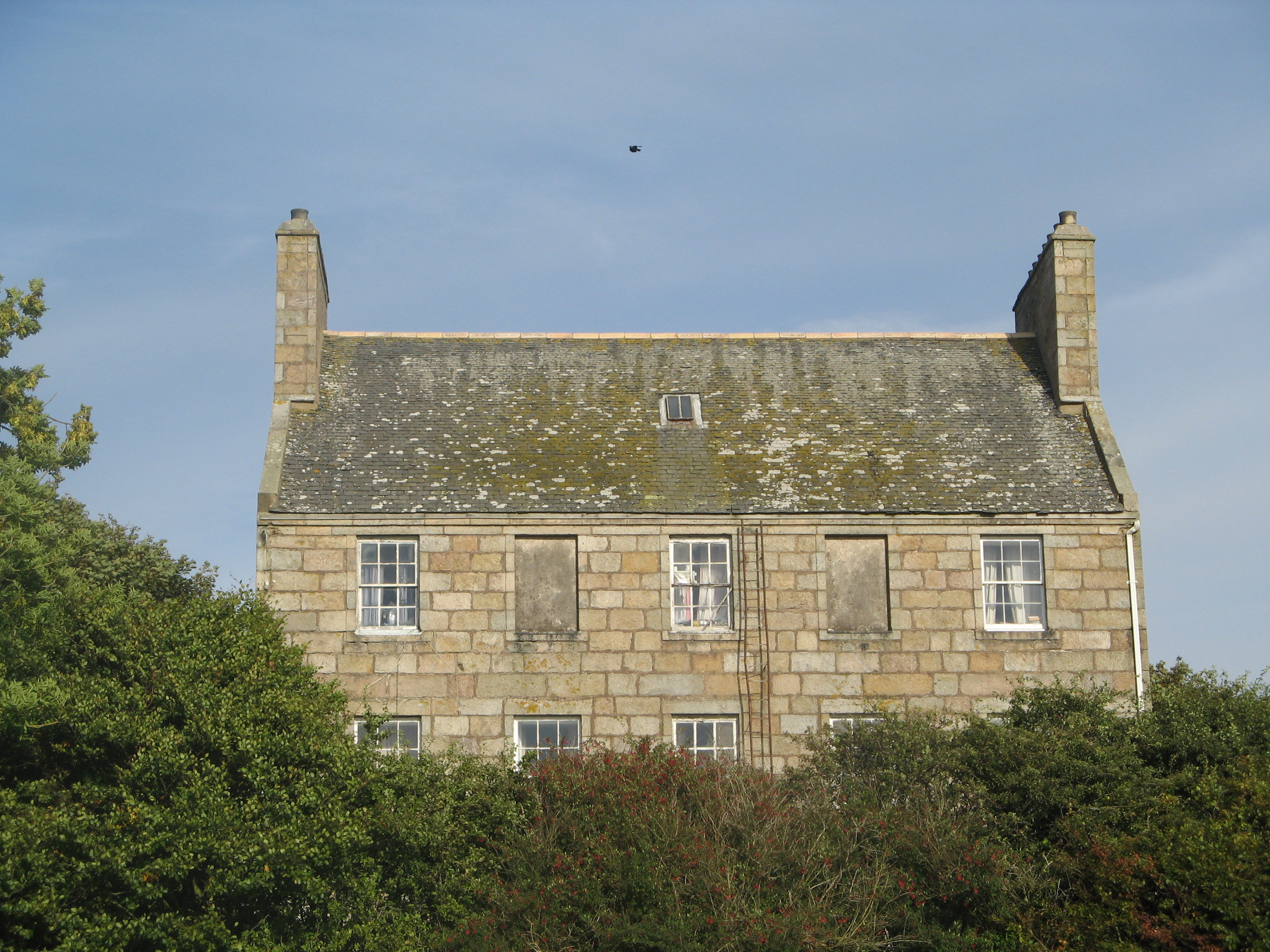 Orrok (or Orrock) House